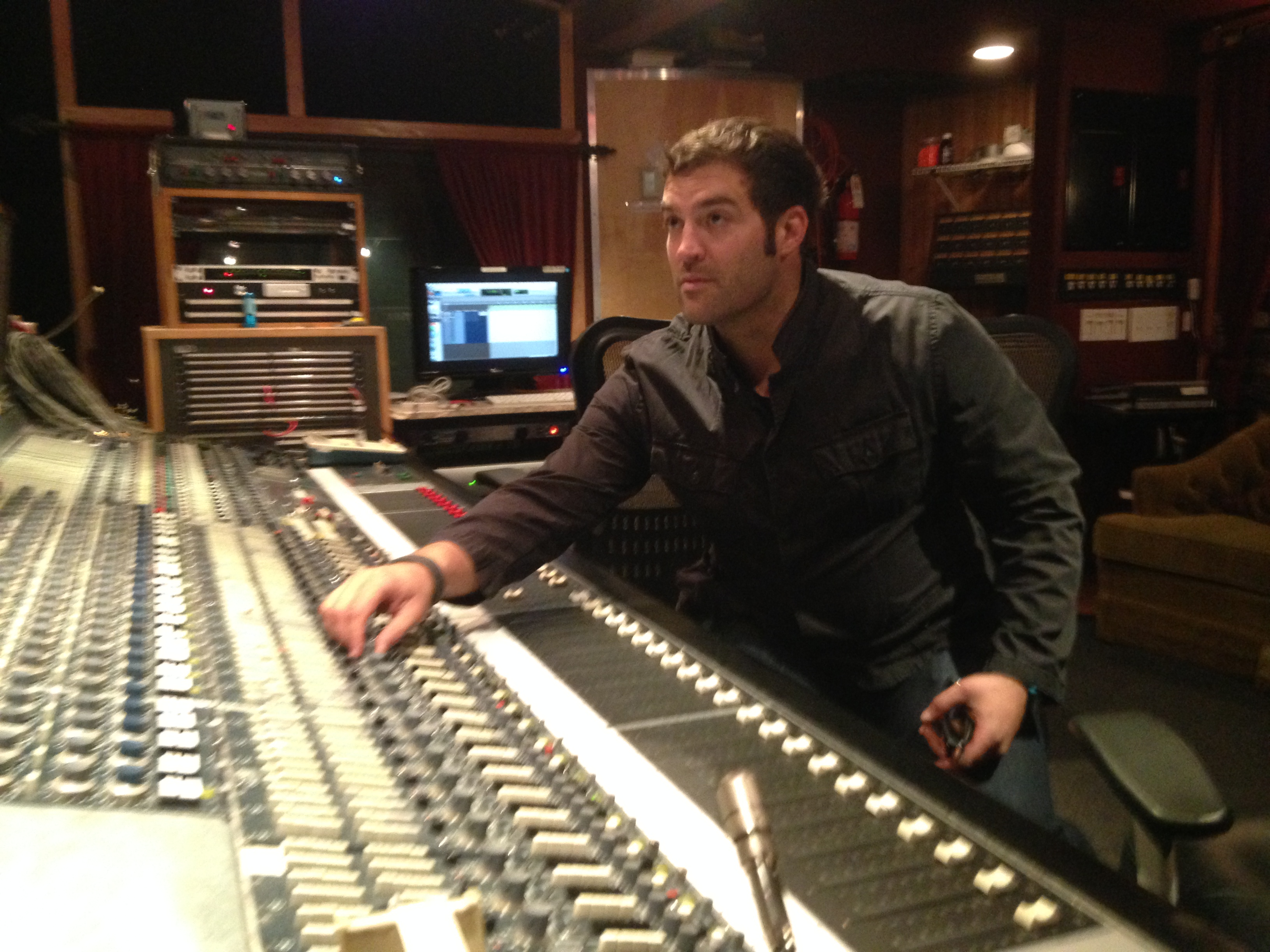 Colin Davis in the studio